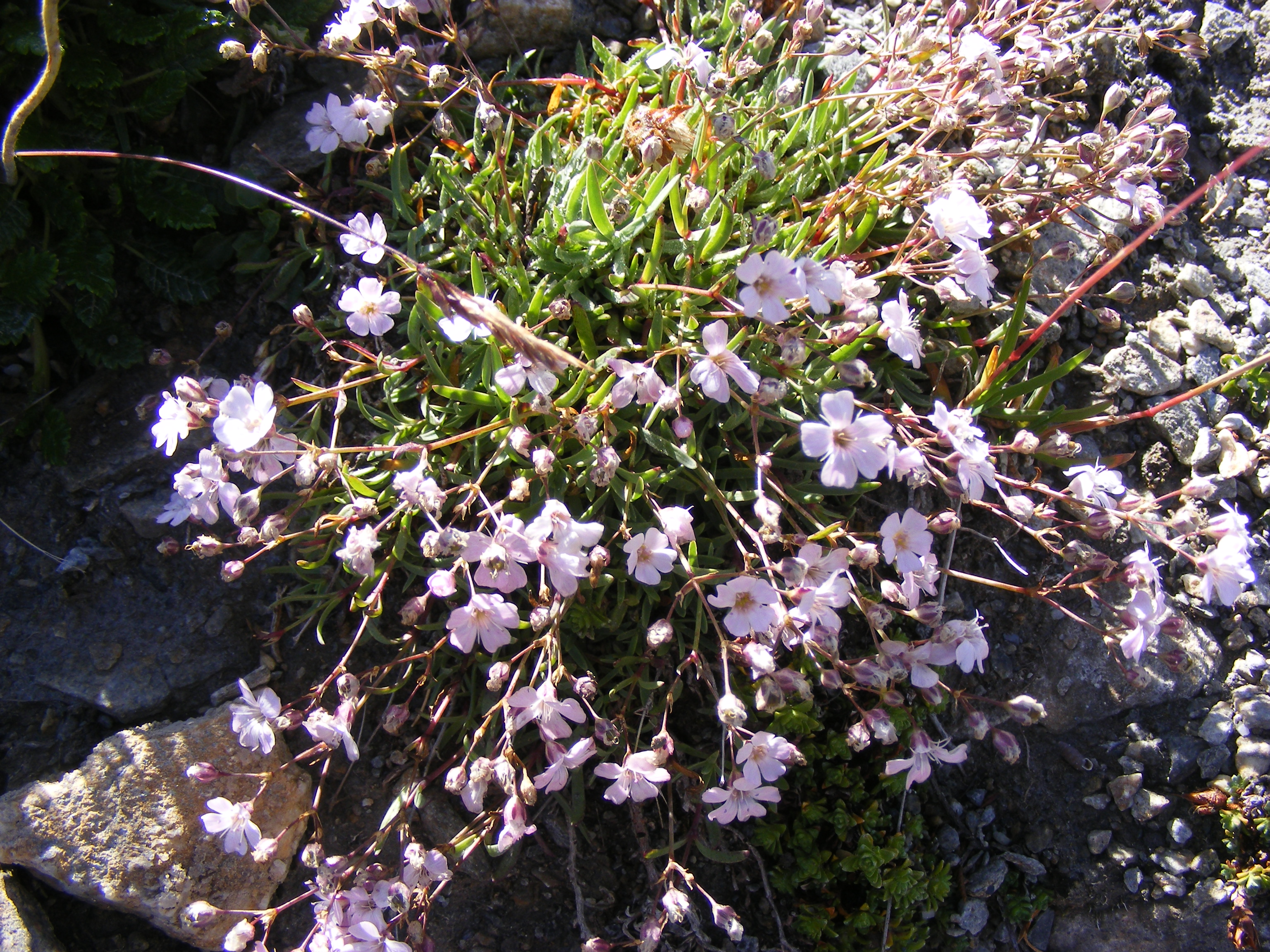 Gypsophila repens'